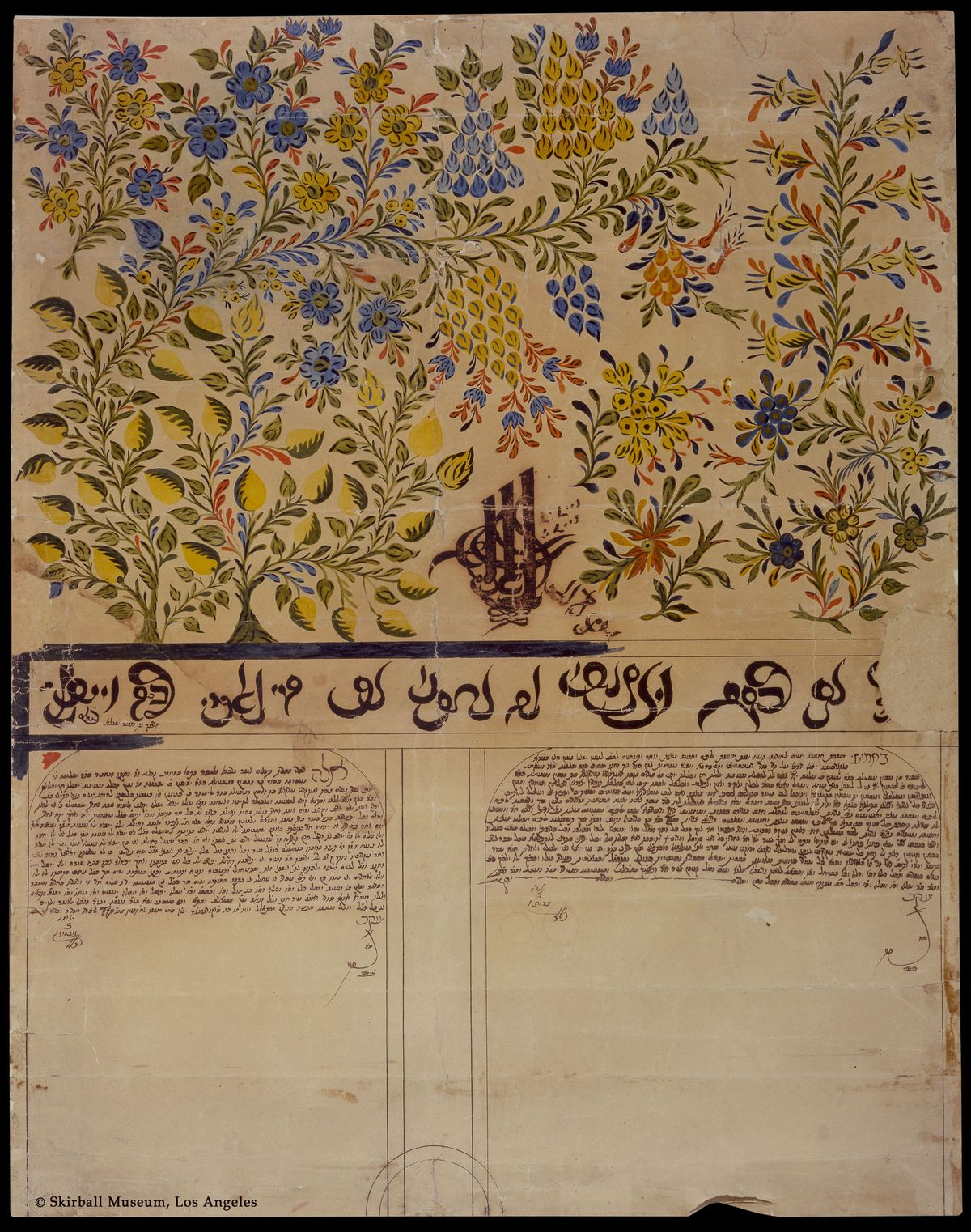 Ketubah from The Ketubot Collection of the National Library of Israel